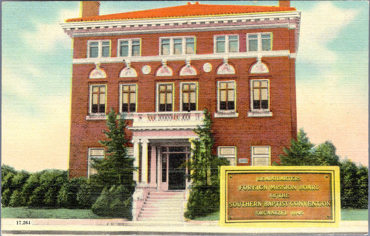 Description: The Southern Baptist Convention established its Foreign Mission Board in 1845 and designated Richmond, Virginia, as the headquarters city. The board occupied various quarters until 1943. With the gift of George W. Bottoms, a Baptist layman of Texarkana, Arkansas, it purchased the John T. Wilson property at 2037 Monument Avenue. This building, to be enlarged as needed, housed the international agency of 25,000 Baptist Churches in the southern regions of the United States. Manufacturer: Richmond News Company Date Postmarked: Not postmarked. Rights: This item is in the public domain. Acknowledgement of the Virginia Commonwealth University Libraries as a source is requested. Reference URL: Collection: Rarely Seen Richmond: Early twentieth century Richmond as seen through vintage postcards